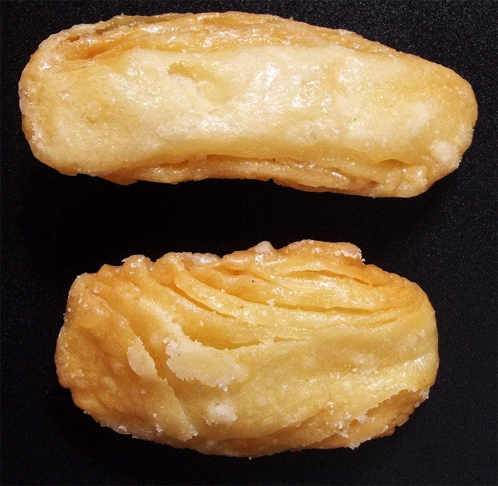 Khaja is a sweet food from Baleswar district, Odisha, India. Refined wheat flour, sugar and oils are the chief ingredients of khaja.